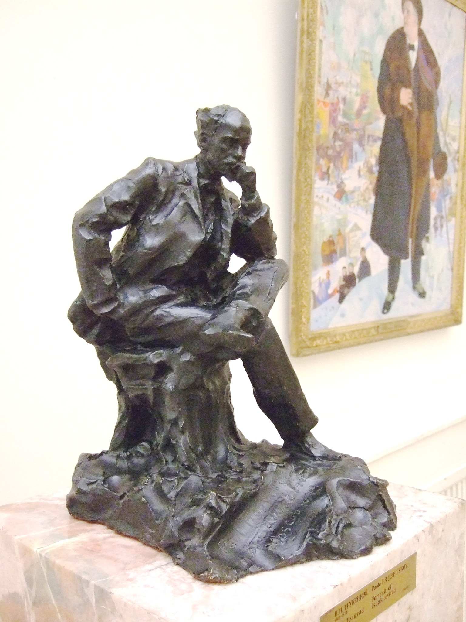 Portrait of Isaac Levitan